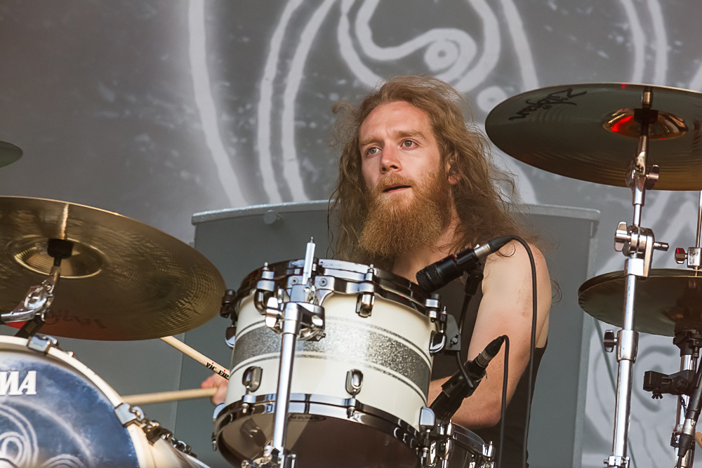 Merlin Sutter performing at the Rock Harz with Eluveitie in 2013.